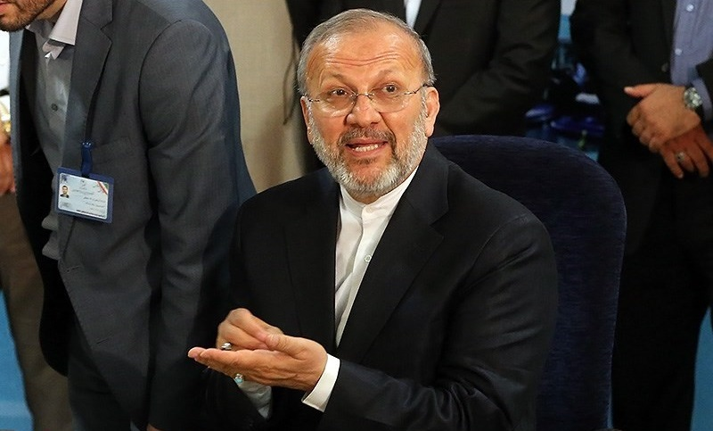 Manouchehr Mottaki registaring for 2013 election